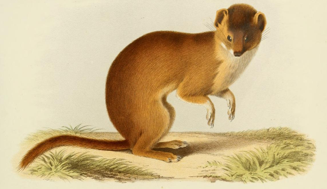 North Chinese kolonok (M. s. fontanierii)